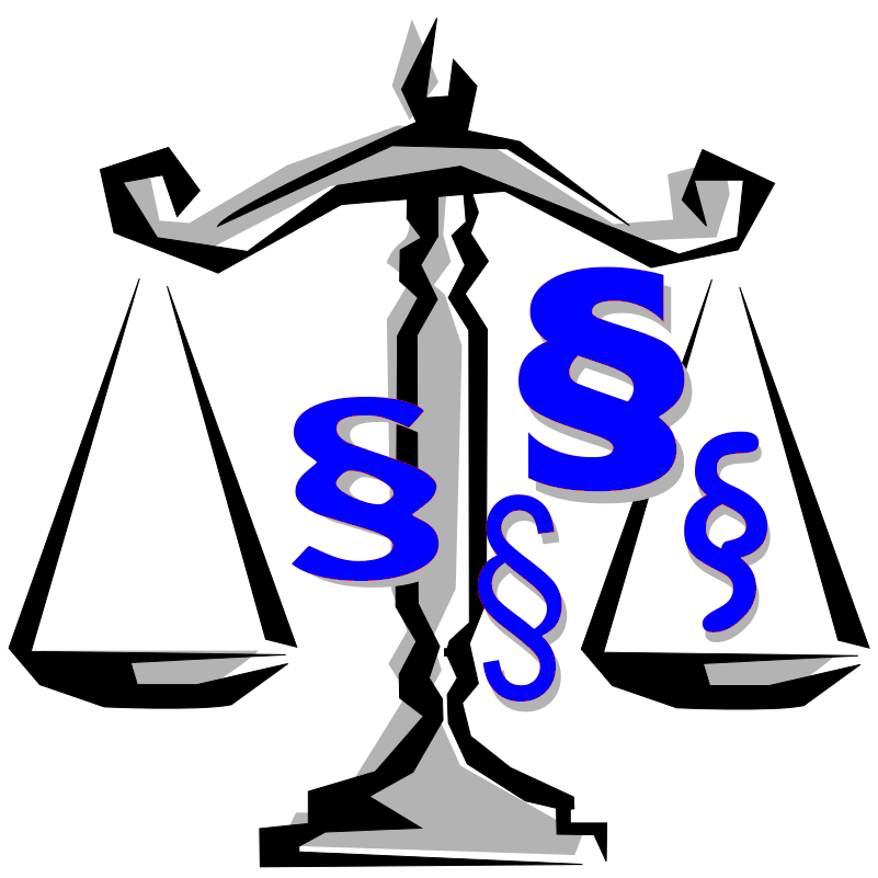 Justice and law.